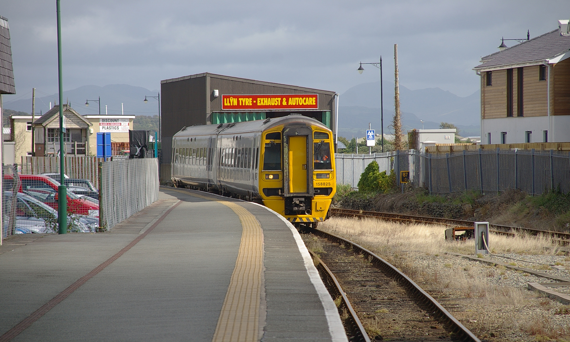 Arriva Trains Wales 158825 arrives at Pwllheli railway station, the terminus of the Cambrian Coast Line.